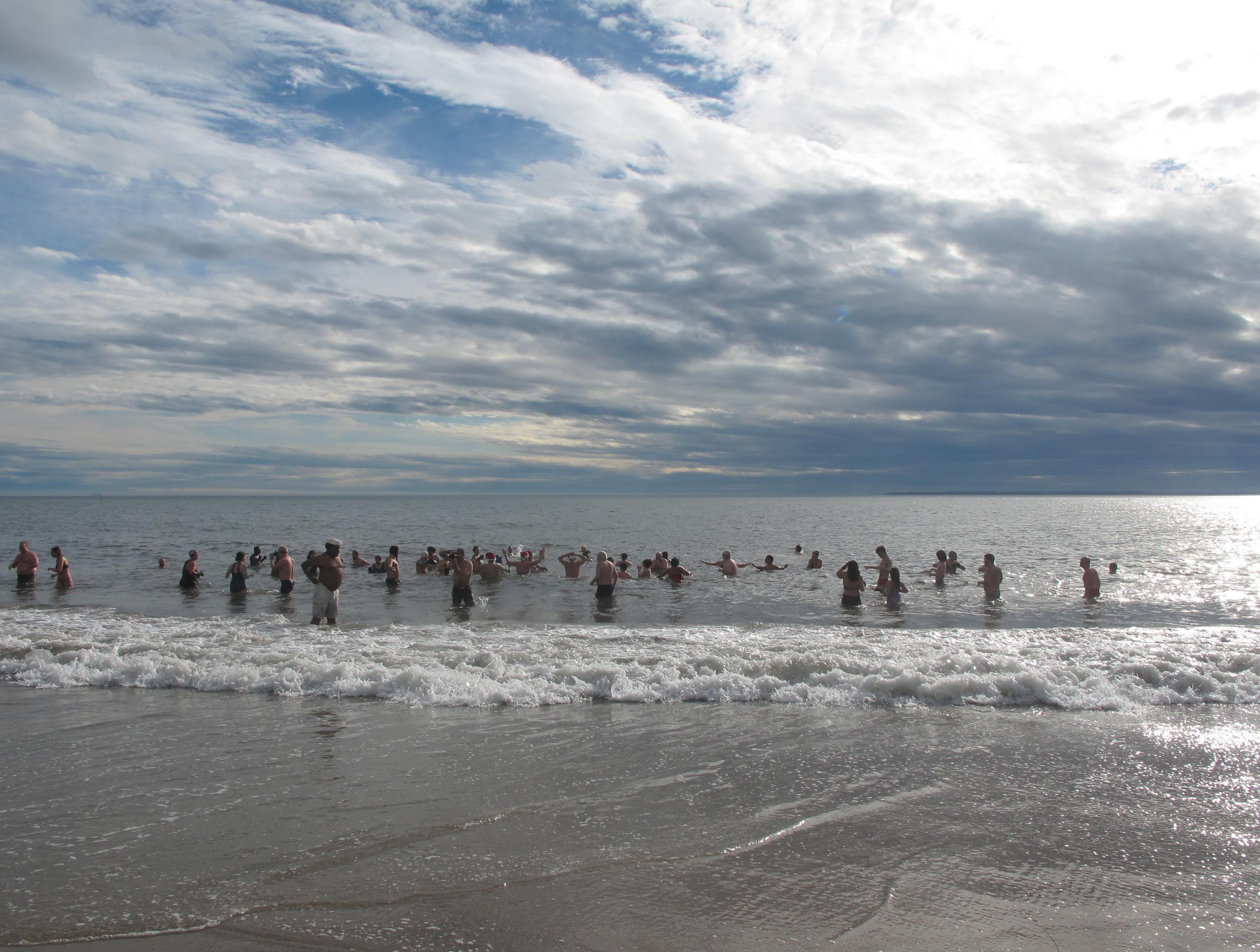 The Coney Island Polar Bears in the water on December 22nd, 2013